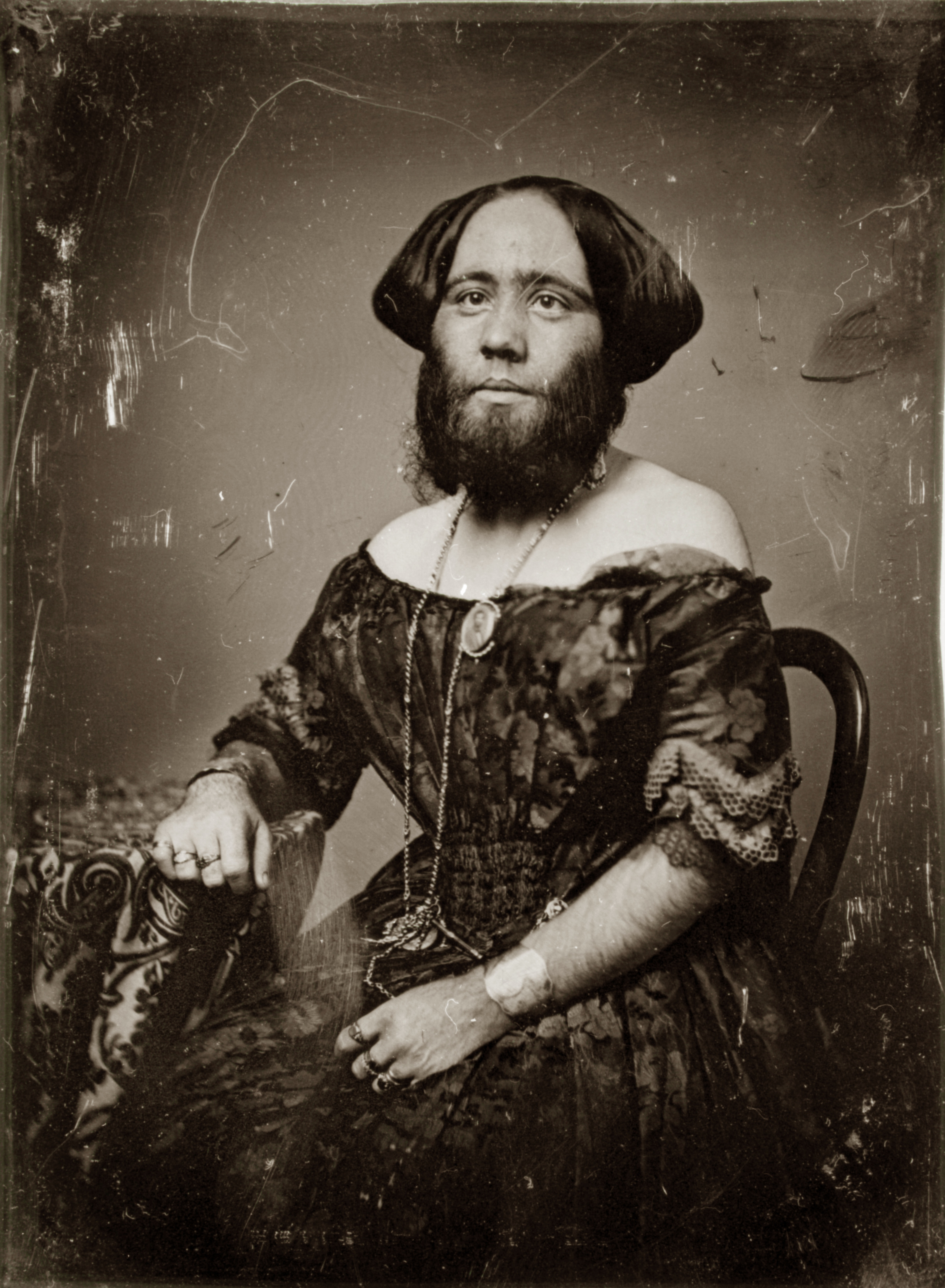 Portrait of Josephine Clofullia, otherwise known as Madame Clofullia or P. T. Barnum's "Bearded Lady of Geneva." She sits on a wooden chair and leans against a cloth-covered table. Around her neck is a long chain that is connected to a pocket watch that sits in her lap. She wears bracelets, many rings, and a brooch that holds a daguerreotype of her husband, Fortune Clofullia, a landscape painter. Title: Josephine Clofullia. [Madame Clofullia, P.T. Barnum's "Bearded Lady of Geneva"].